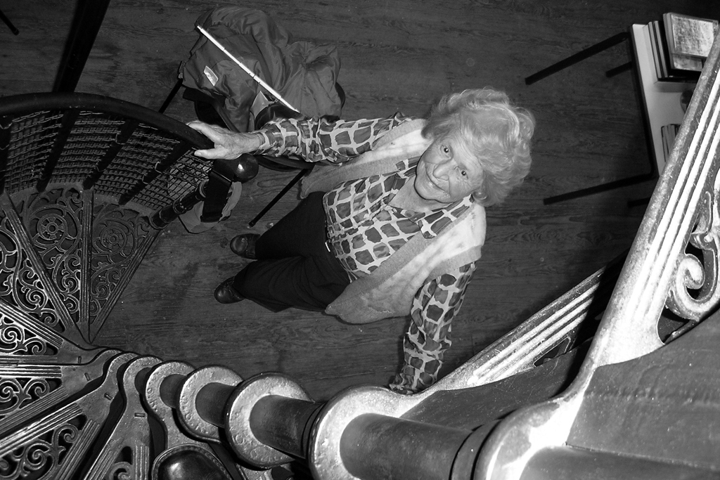 Dame Kathleen Ollerenshaw at Manchester Astronomical Society